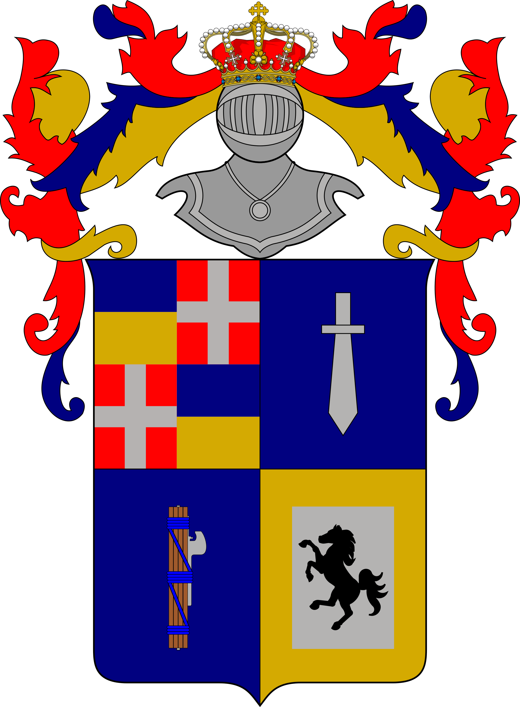 Coat of Arms of the 226th Infantry Regiment "Arezzo", Royal Italian Army, 1939 - Royal Crown by user [user F l a n k e r], released to public domain (see File:Crown of Savoy.svg)